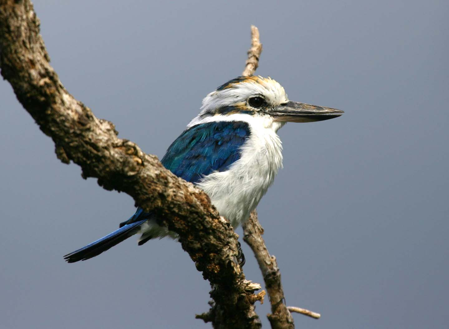 Collared Kingfisher Todiramphus chloris pealei at National Park of American Samoa